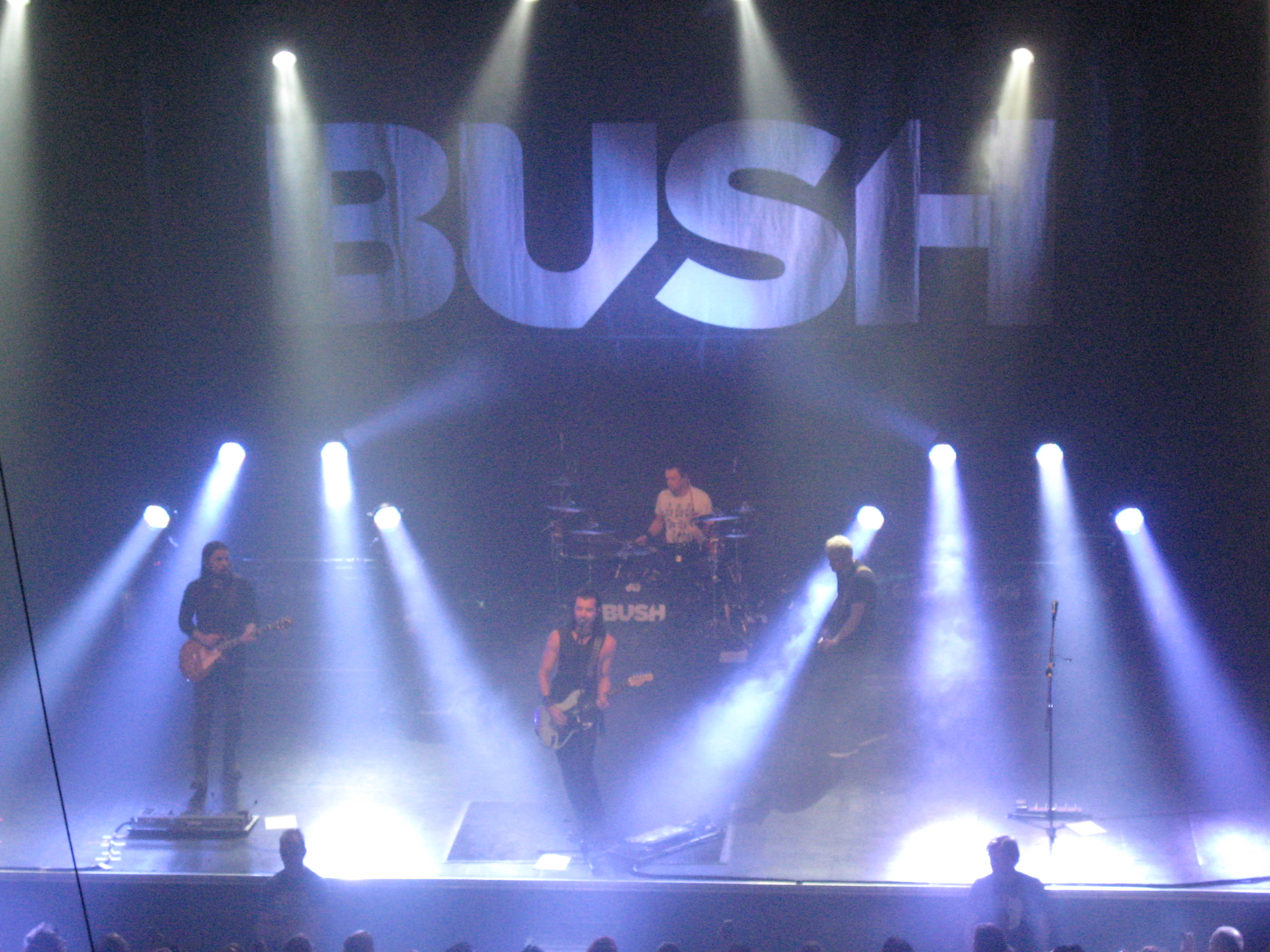 Bush performing at the 013 16-11-2011